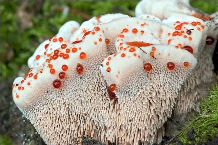 Hydnellum ferrugineum ((Fr.) P. Karst.) Location: Zadnja Trenta valley, East Julian Alps, Posocje, Slovenia EC Notes: Lat.: 46.39941 Long.: 13.7013Code: Bot_387/2009-5467Habitat: Mixed wood, predominantly Fagus sylvatica and Picea abies, in shade, protected from direct rain by tree canopies, calcareous ground, average precipitations ~3.000 mm/year, average temperature 6-8 deg C, elevation 990 m (3.250 feet), alpine phytogeographical region.Substratum: Decomposing tree litter and soil among roots of an old Picea abiesPlace: West side of Zadnja Trenta valley, south of ex Fjori farm house, East Julian Alps, PosoÄ%uFFFDje, Slovenia ECNikon D70 / Nikkor Micro 105mm/f2.8